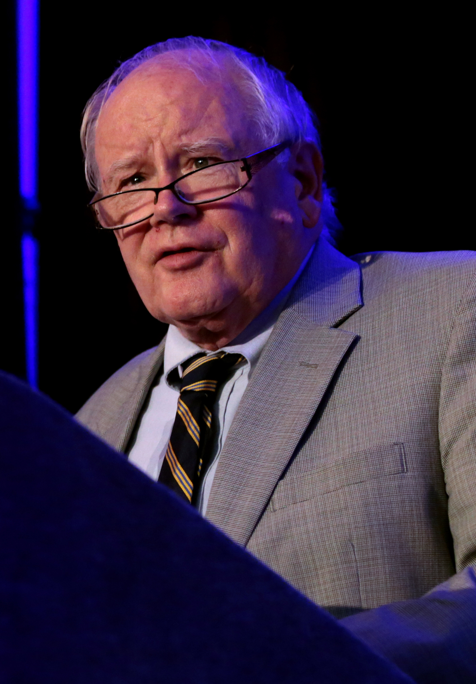 Richard Vedder speaking at an event in Reston, Virginia.